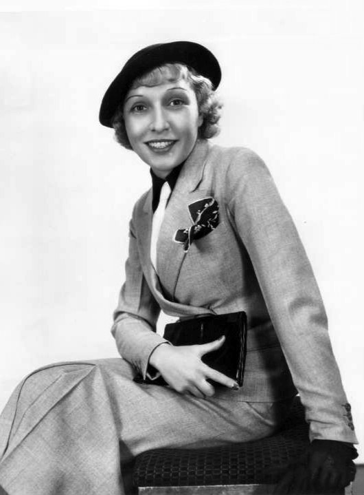 Publicity portrait of Jane Ace. "An Ace of the Air: Jane Ace is a real air ace despite the fact that she has never piloted an airplane. Jane and her husband, Goodman Ace, have risen to the heights of radio fame with Easy Aces, the domestic comedy series which they write and present over an NBC-WEAF network each Monday, Tuesday and Wednesday at 7:30 PM, E. S. T." (NBC Photo 2/14/35) "Jane Ace-Job #2437 Neg #10"